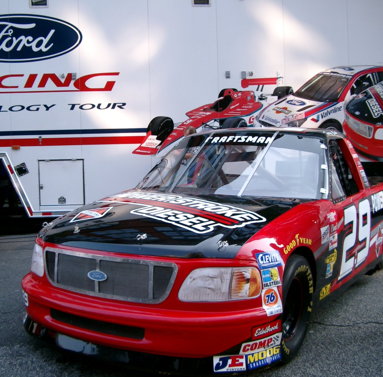 Terry Cook's No. 29 Ford F-150, NASCAR Craftsman Truck Series, 2003